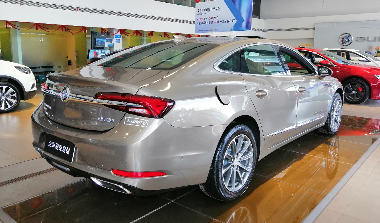 Buick LaCrosse III facelift photographed in Shanghai, China.